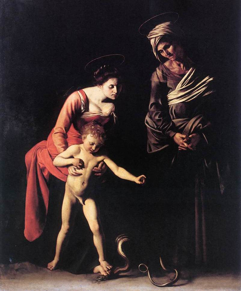 Madonna with the Serpent